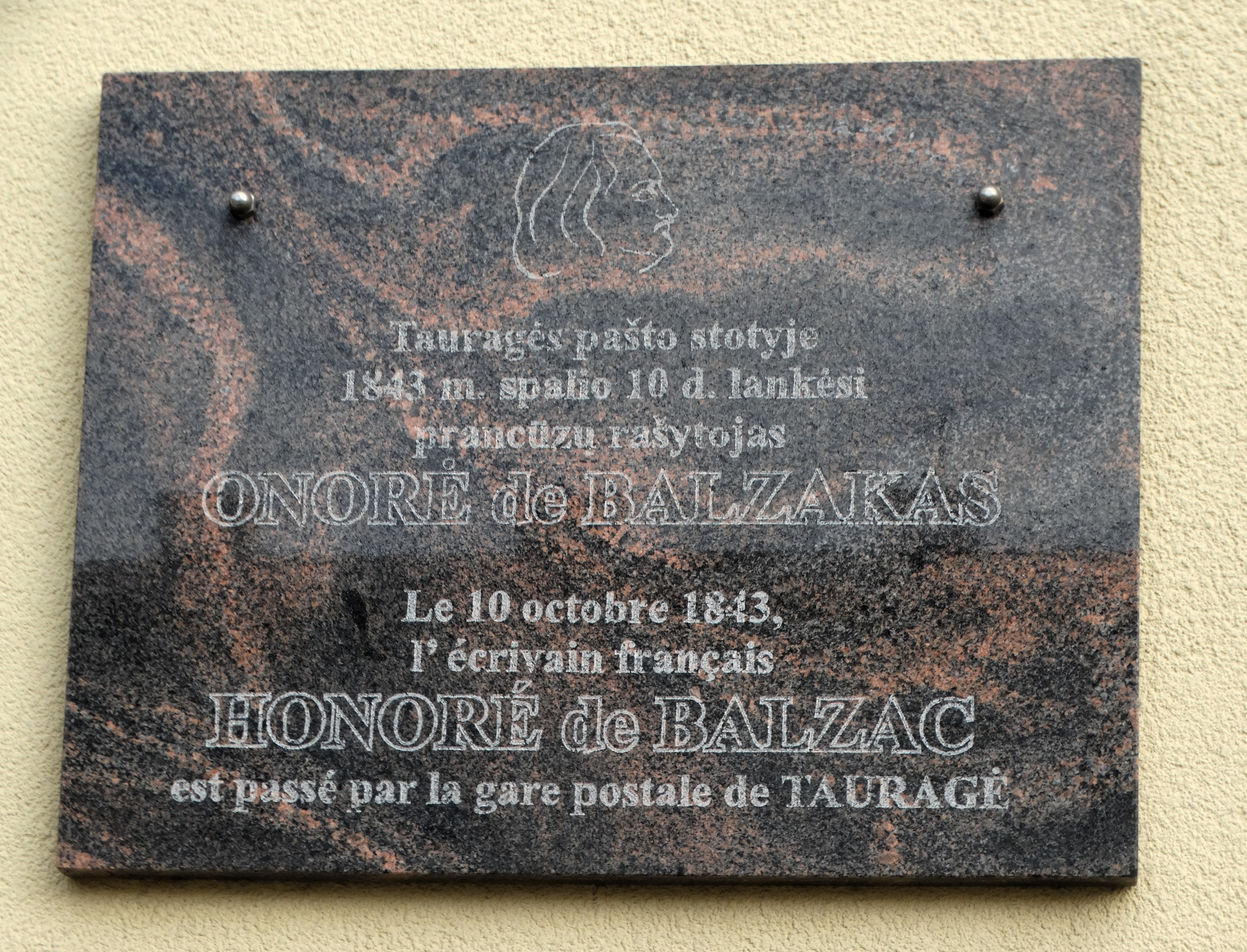 Honoré de Balzac, memorial board, Tauragė, Lithuania